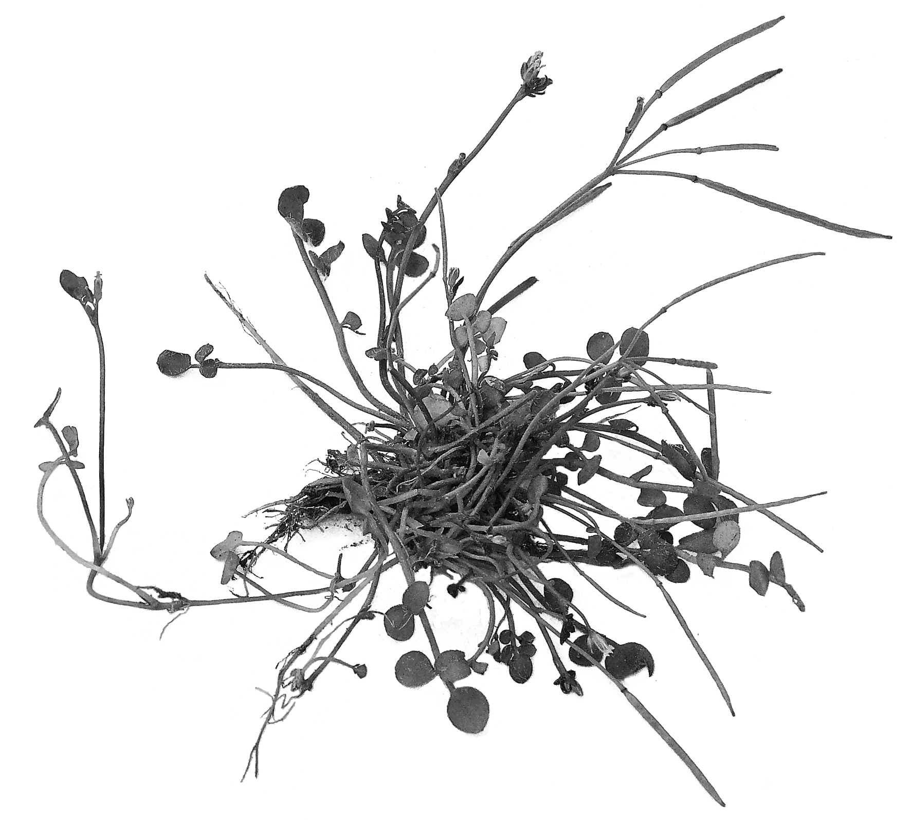 New Zealand Bittercress (Cardamine corymbosa) - inflorescence and siliques